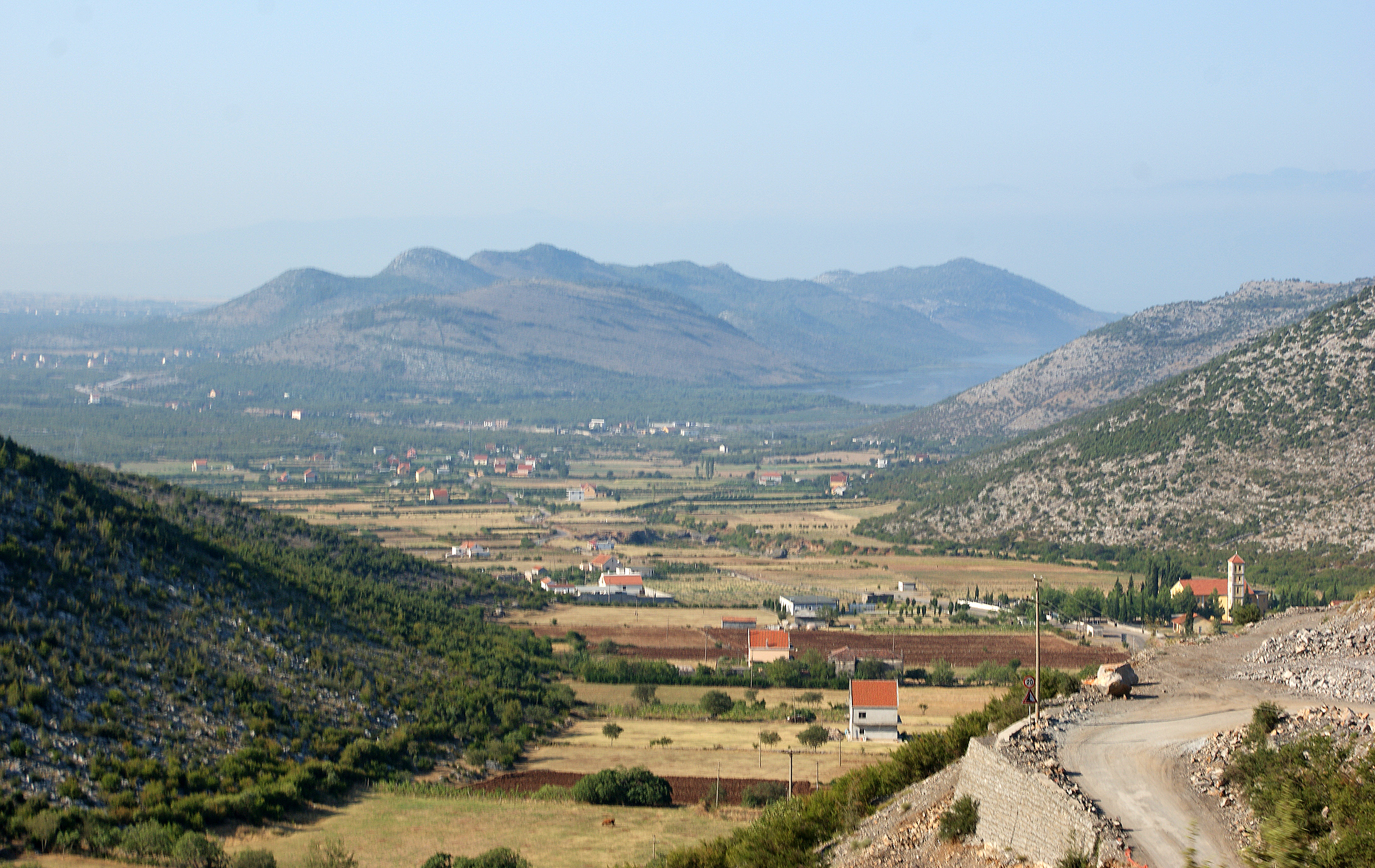 Han i Hotit, Lake Shkodra and the church of Hot seen from the road to Kelmend